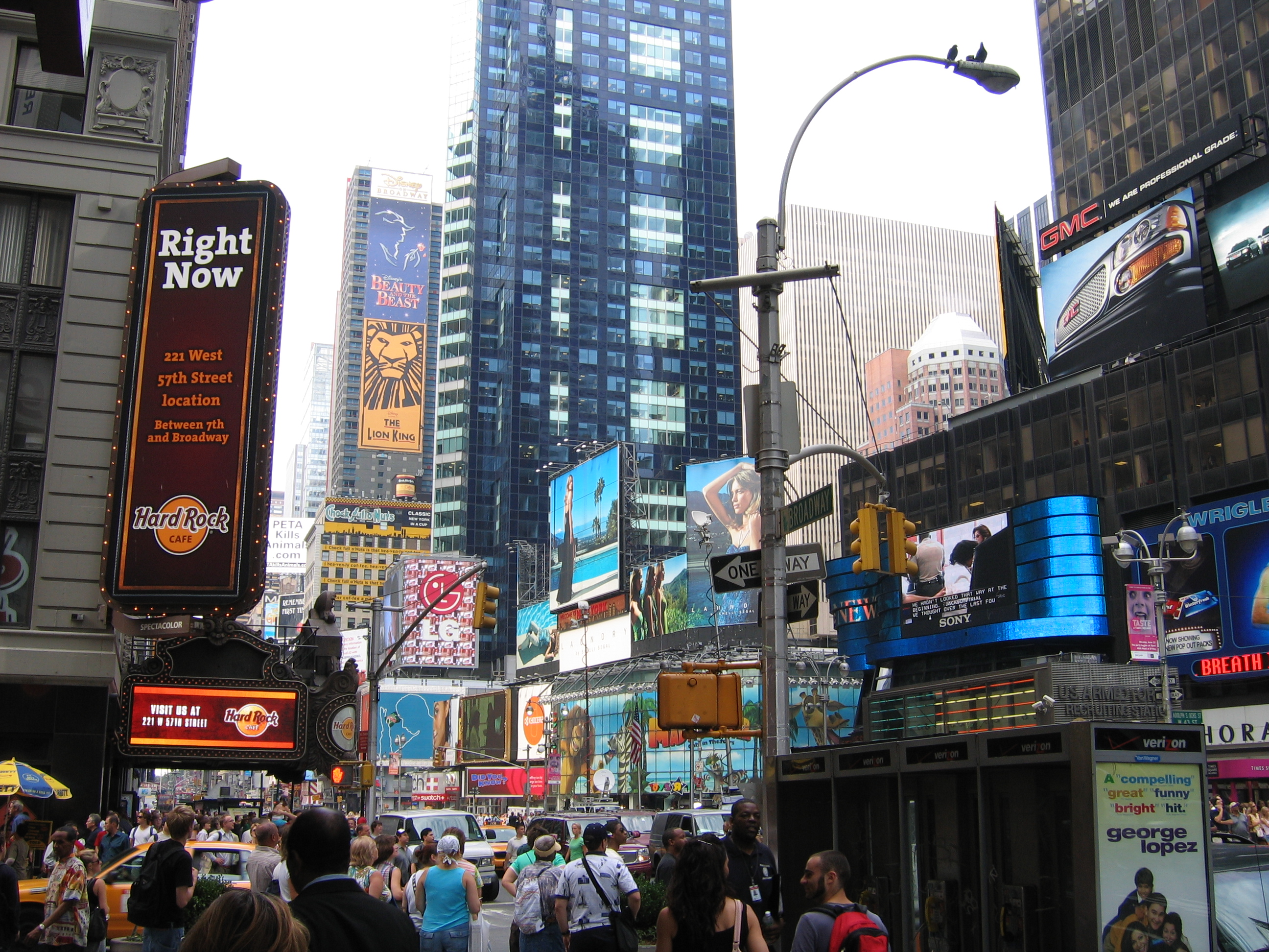 Times Square in New York City